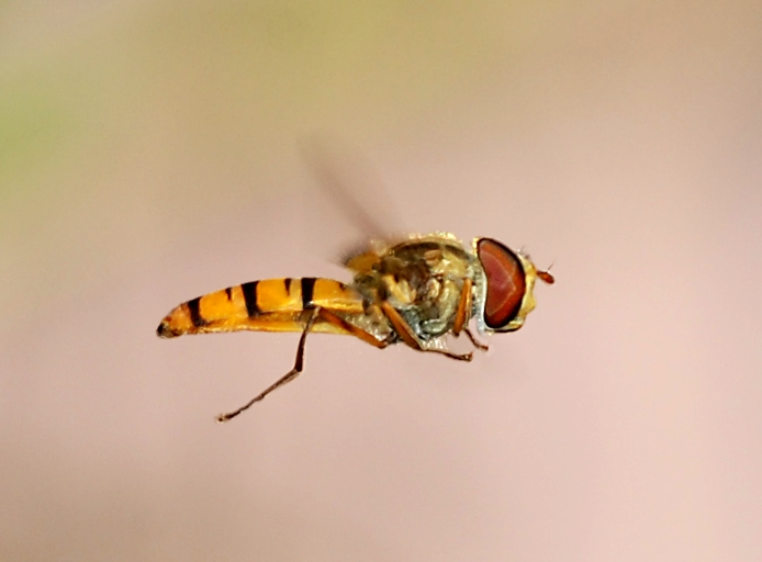 A hoverfly on flight (Episyrphus balteatus)